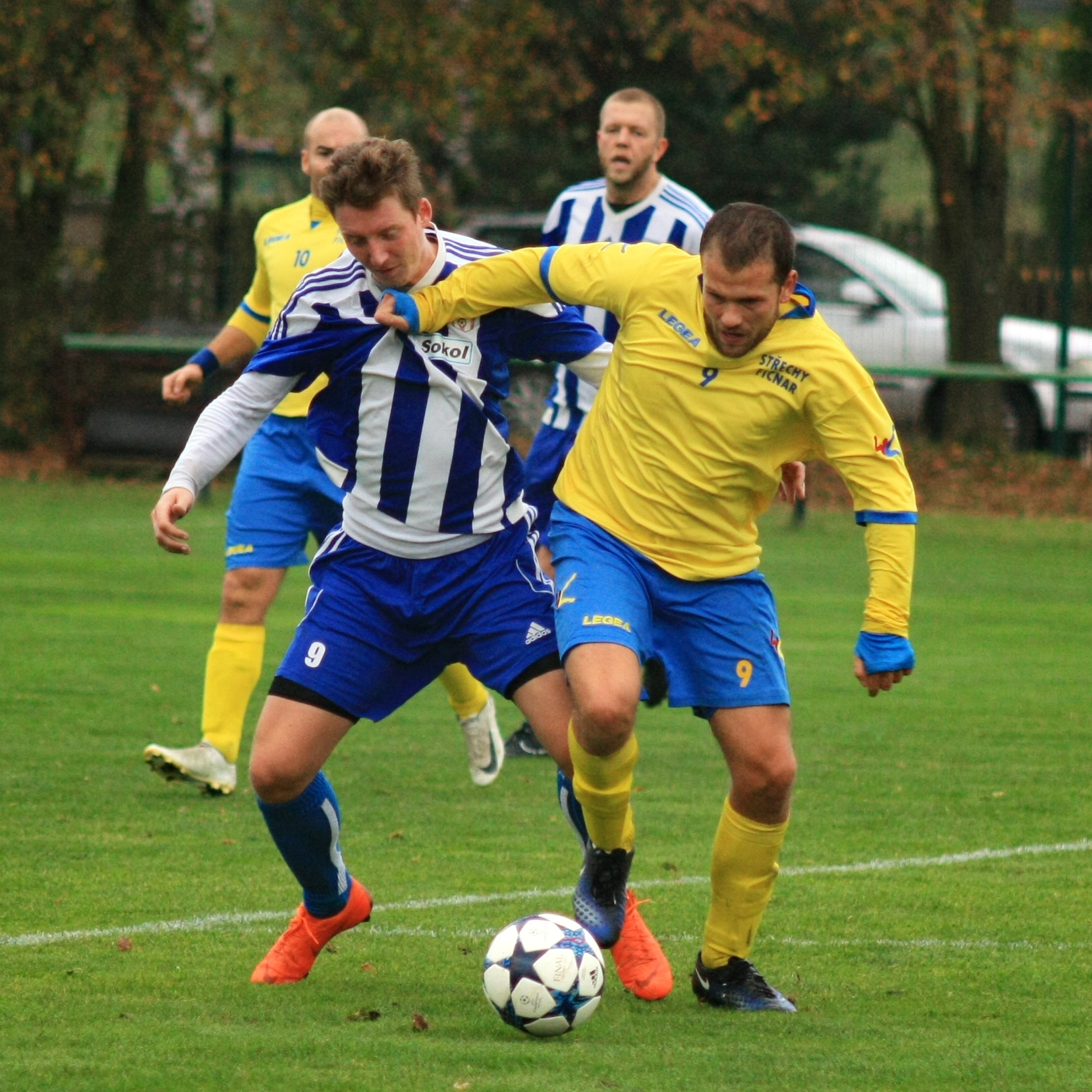 FK Baník Ostrava-SK Stonava match (2:3) played on 22 October 2018